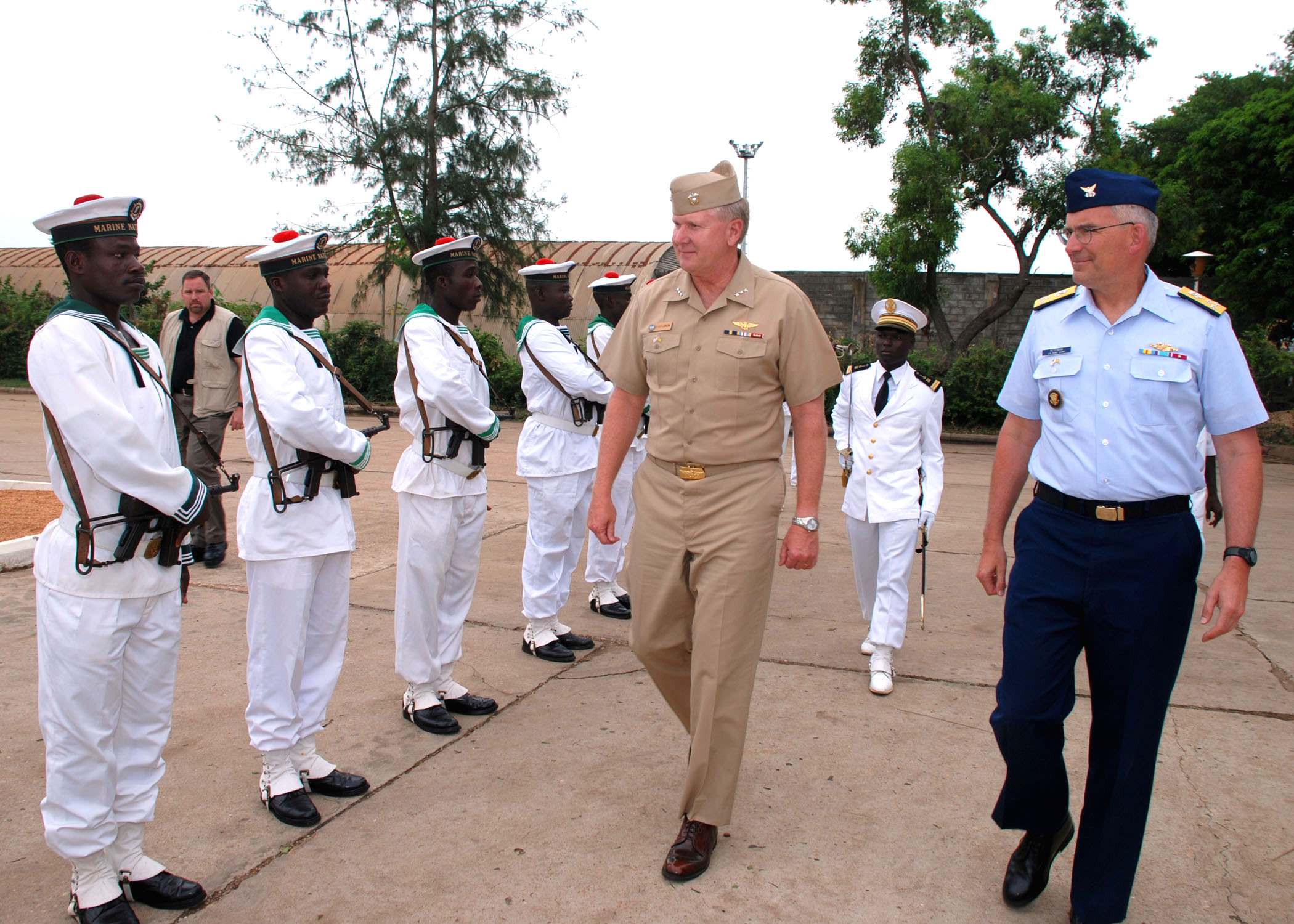 070521-N-6544L-002 LOME, Togo (May 21, 2007) - Commander, U.S. Sixth Fleet Vice Adm. John Stufflebeem and Commander, U.S. Coast Guard Atlantic Area Vice Adm. D. Brian Peterman review a formation of Togolese sailors at the Port of Lome. Stufflebeem and Peterman are leading a joint Navy and Coast Guard team that will travel throughout West Africa and the Gulf of Guinea to discuss maritime security and safety with local maritime officials and U.S. embassy country teams. Navy and Coast Guard engagement in Africa is part of a larger U.S. government interagency effort to enhance regional maritime security. U.S. Navy photo by Mass Communication Specialist 2nd Class Rosa Larson